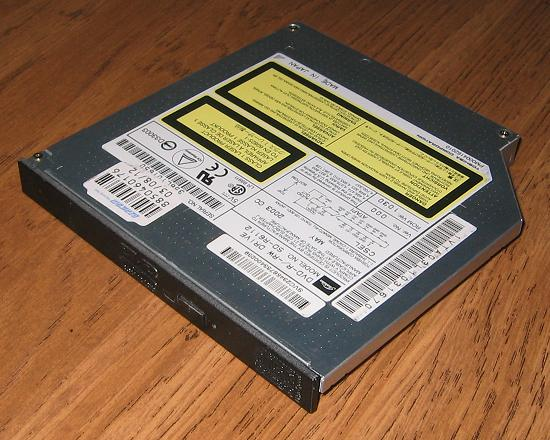 A DVD burner in SlimLine design